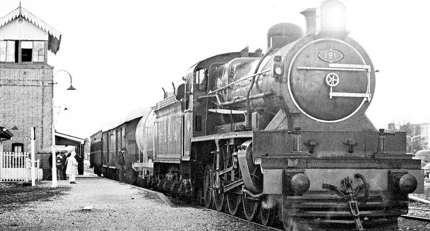 The famous "191" steam locomotive (nickanamed La Emperatriz in Argentina) at Pérez station (near Rosario, Santa Fe Province). The machine became a legend after being driven by Francisco Savio for 18 years. It had been manufactured by the North British Locomotive Company (Scotland) and was in service in the Argentine Ferrocarril Gral. B. Mitre from 1915 to 1964. The 191 was later restored by a group of enthusiasts of Club Ferroviario Central Argentina of Rosario, Santa Fe Province.